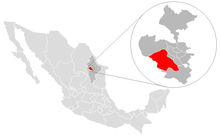 Map of location of Santa Catarina, Mexico (red) within the country and state of Nuevo León. Dark gray surrounding the city shows the Monterrey metropolitan area. Map designed by Alex Covarrubias.